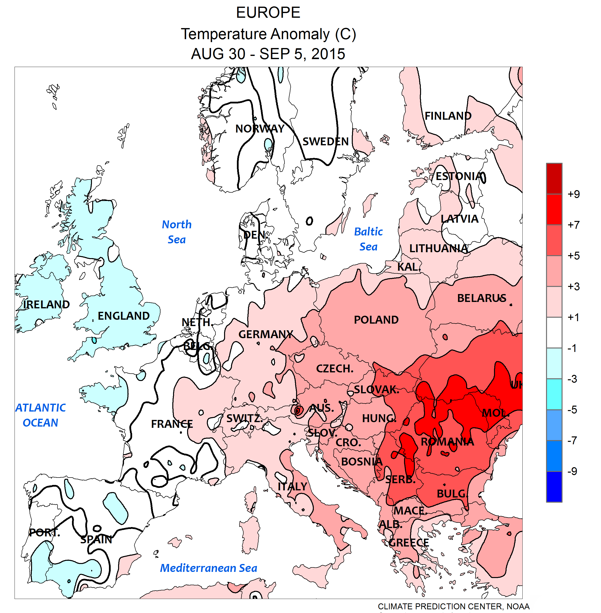 Europe: Temperature anomaly August 30 - September 5, 2015, computer generated contours, based on preliminary data